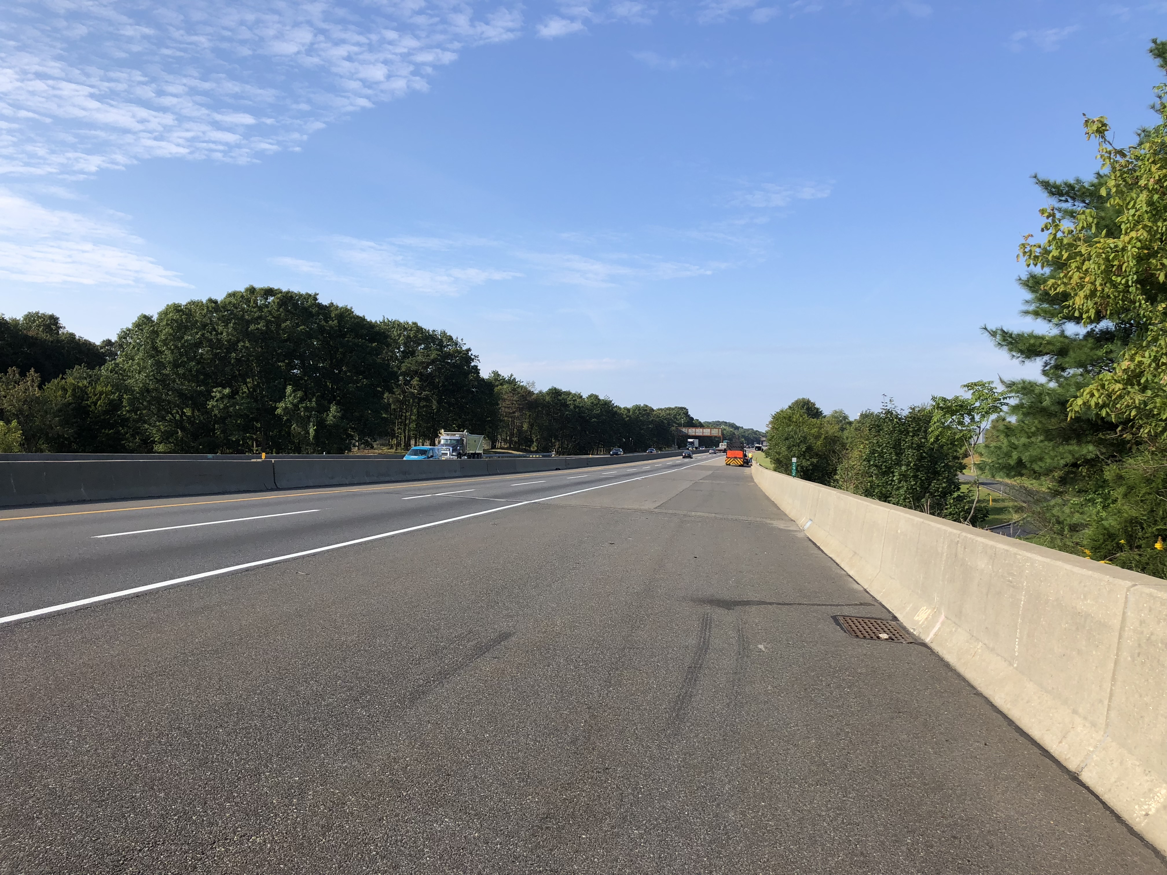 View south along New Jersey State Route 700 (New Jersey Turnpike) between Exit 4 and Exit 3 in Haddonfield, Camden County, New Jersey